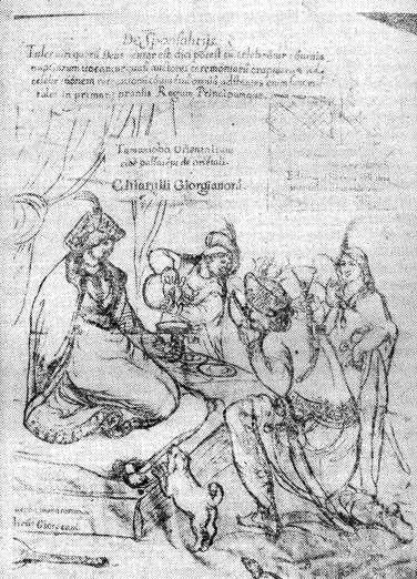 Entertainment of a Georgian princess. A sketch by the Catholic missionaire Don Cristoforo De Castelli